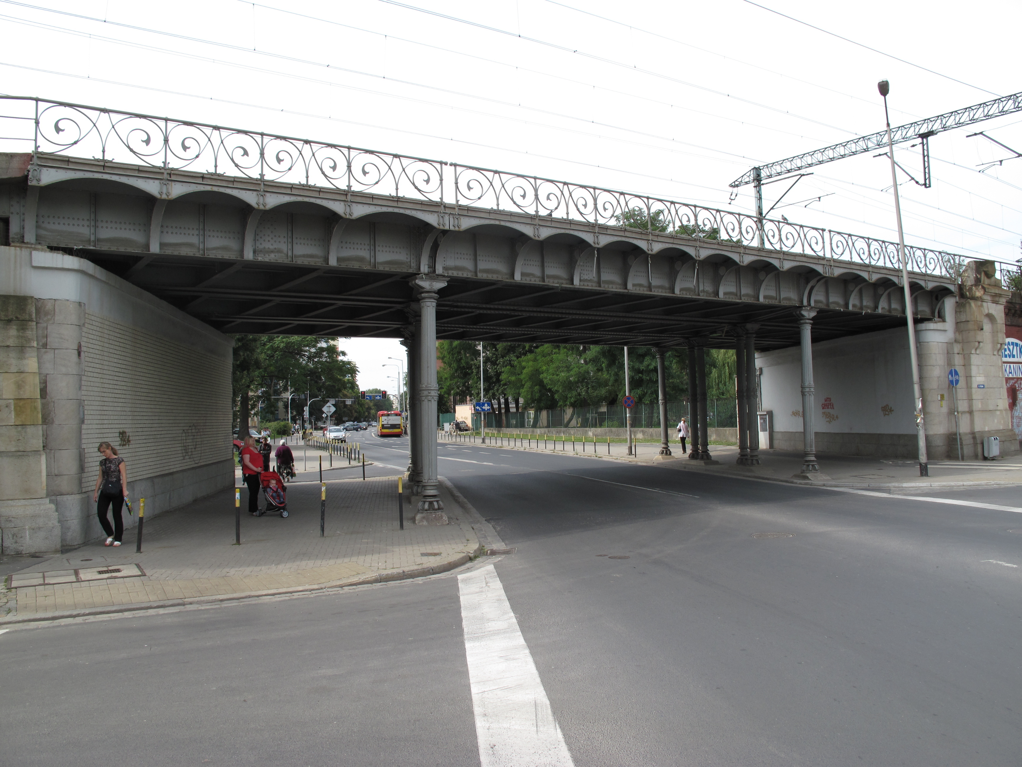 Wrocław, Poland, elevated Railway. Typical railway bridge, ulica Tadeusza Zielińskiego. View from the North.